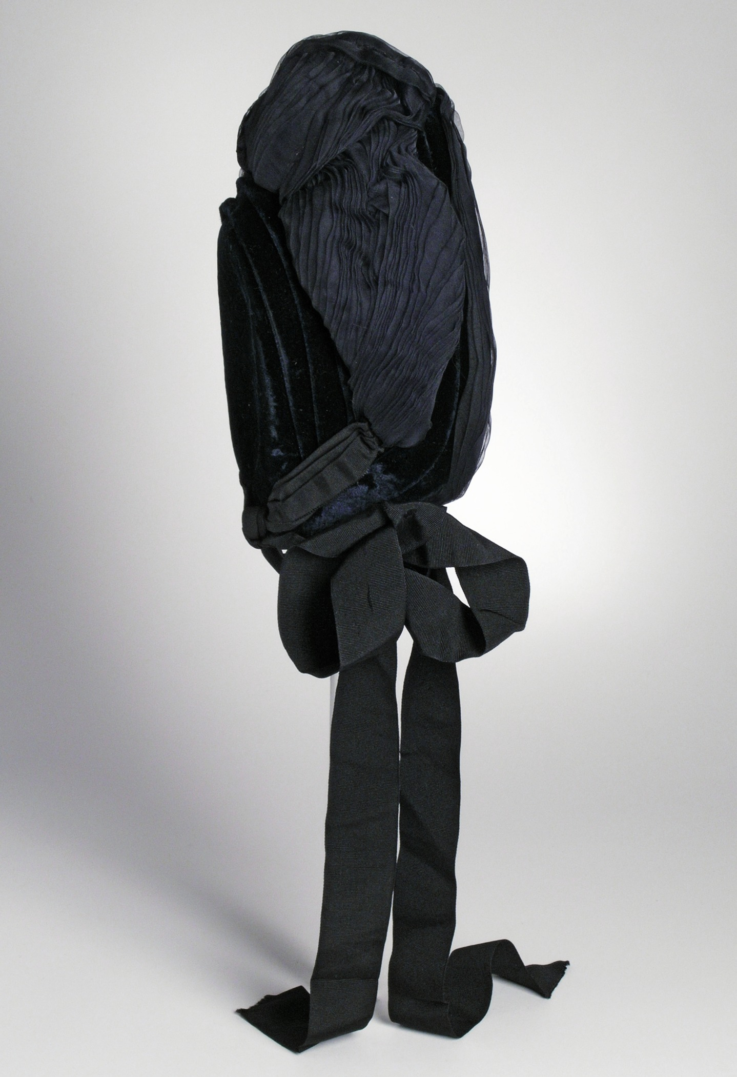 United States, circa 1885 Costumes; Accessories Silk crape, silk velvet Gift of Mrs. John Townsend Smith (M.86.413.53) Costume and Textiles